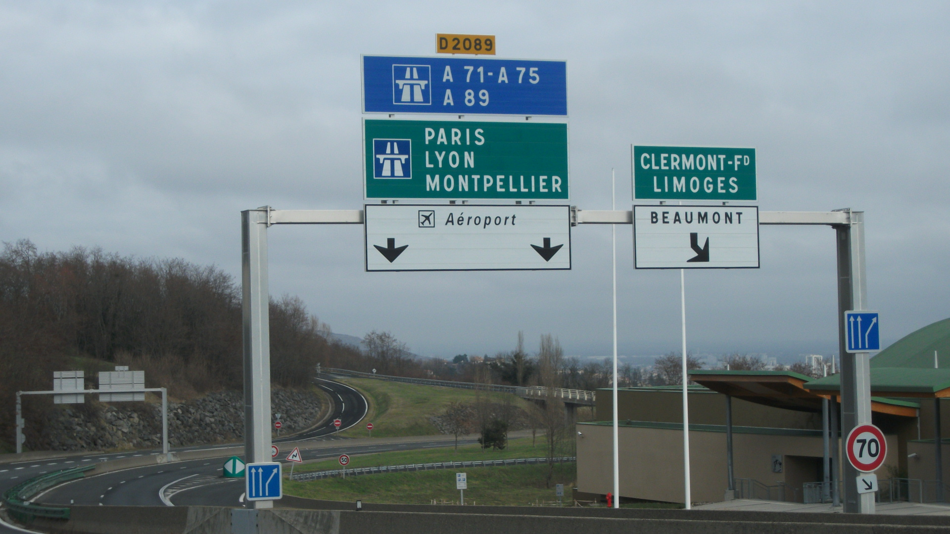 Departmental road 2089 bypassing Ceyrat is 2 lanes in each direction. Here towards A71/A75/A89 motorways and exit for Clermont-Ferrand, Limoges and Beaumont.